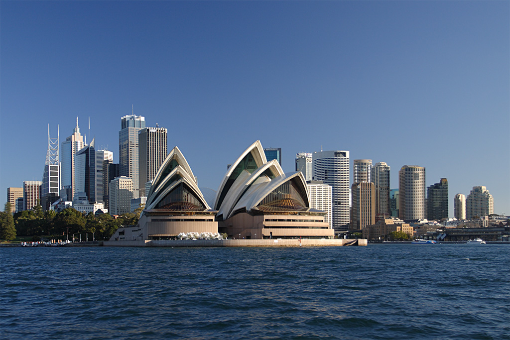 The Sydney Opera House viewed from the water with the city skyline behind Opera w Sydney sfotografowana z wody .Widać ładną panoramę miasta .